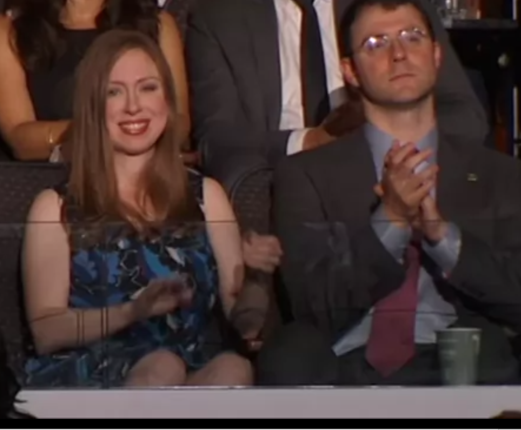 Chelsea Clinton watching her father's speech at the 2016 DNC